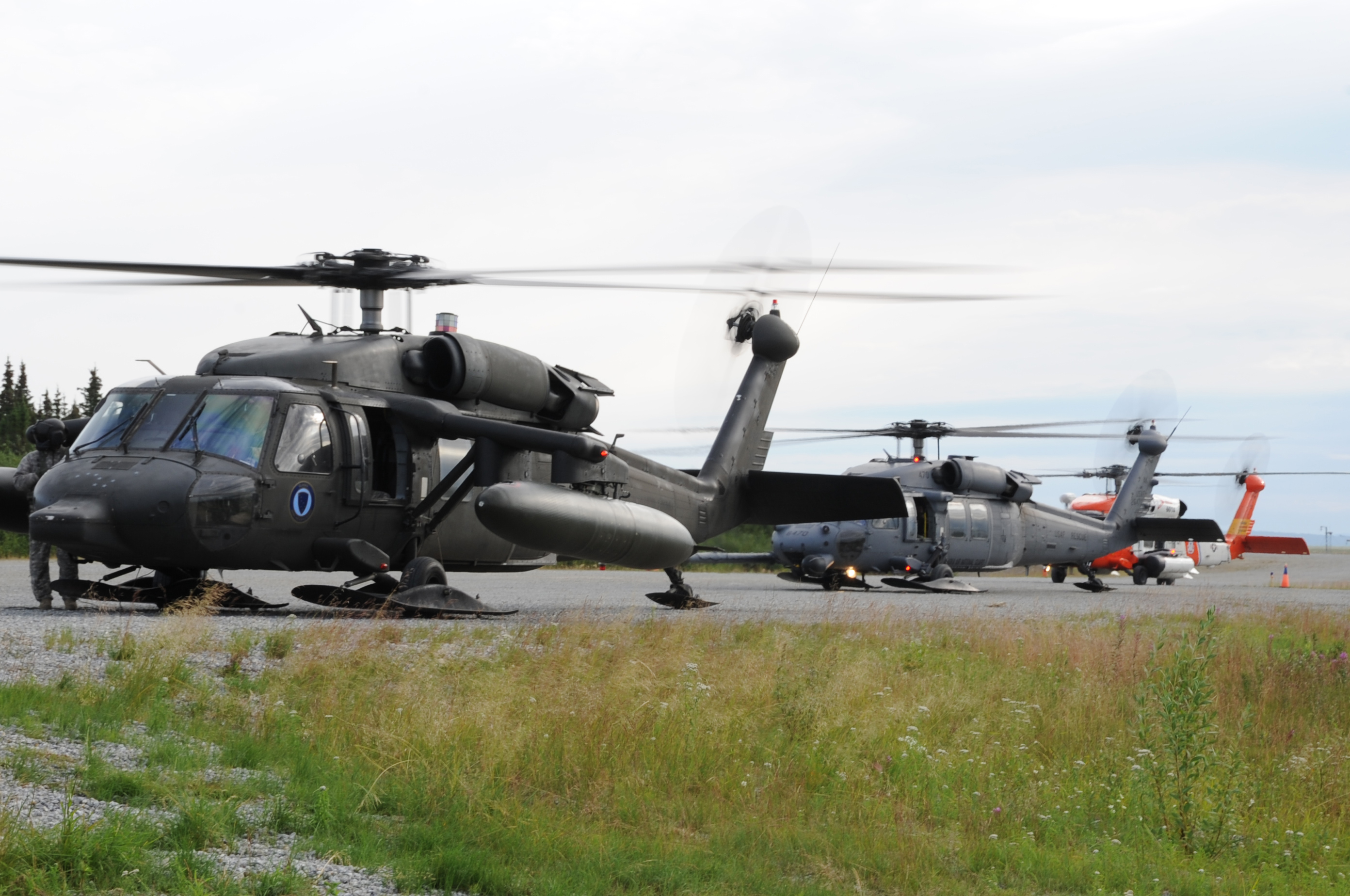 An Alaska Army National Guard UH-60L Black Hawk with skis and FLIR mount on nose in Koyuk, AK.